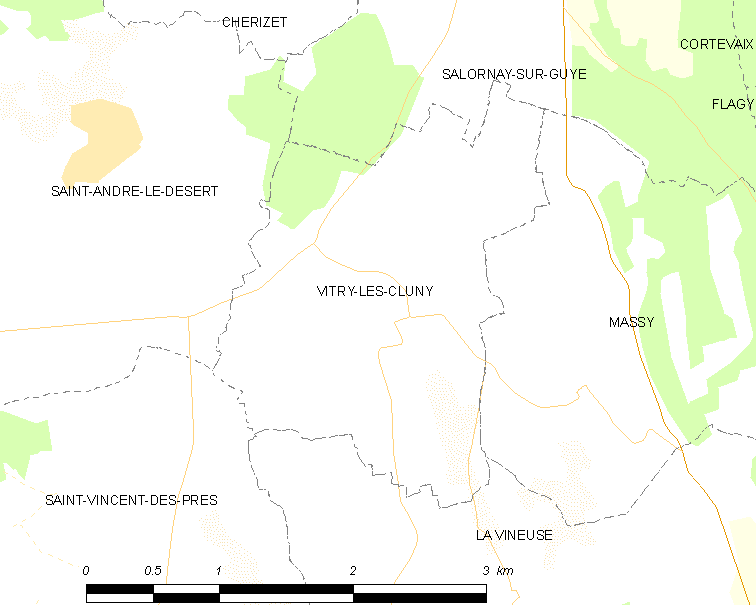 Map of French municipality